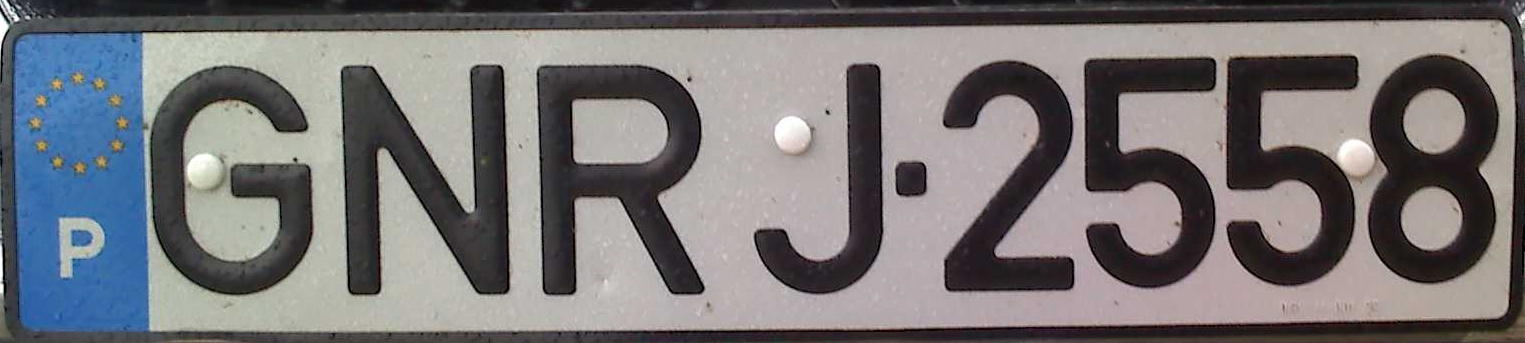 License plate of Portuguese National Republican Guard